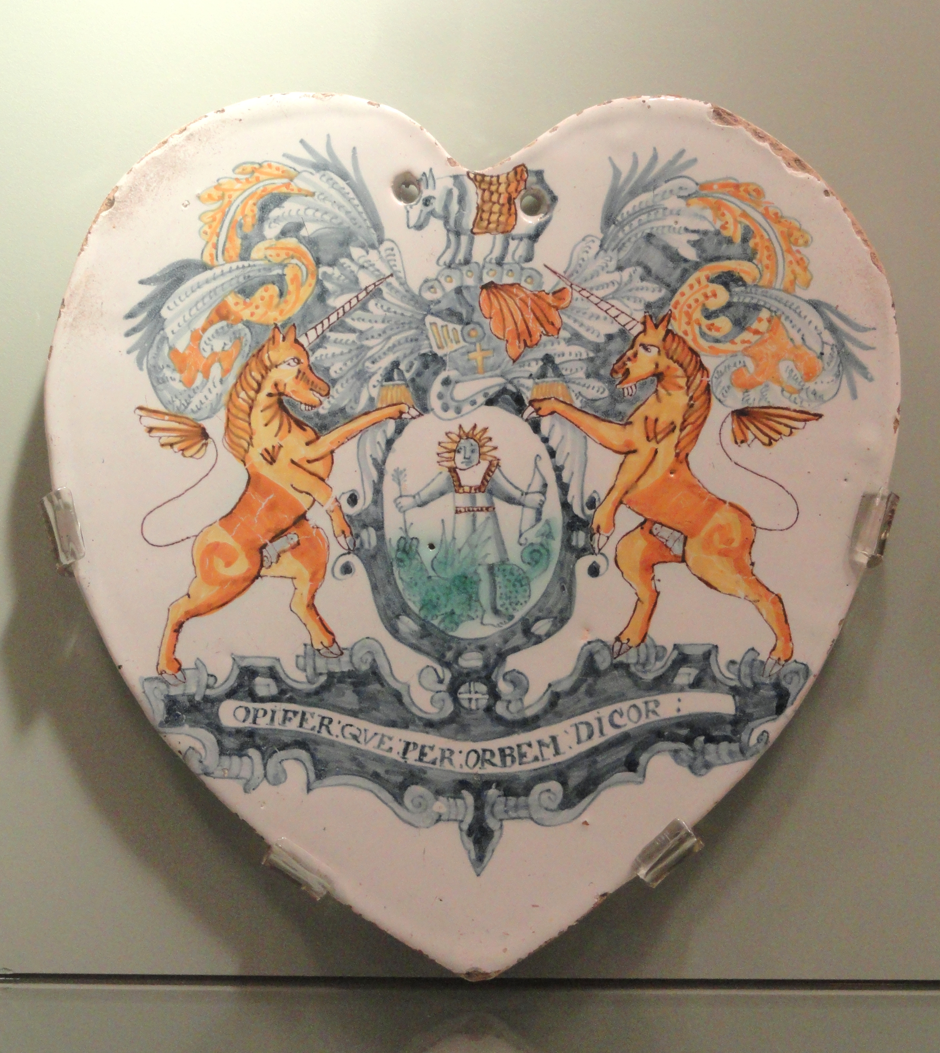 Exhibit in the Gardiner Museum, Toronto, Ontario, Canada. This artwork is in the public domain because the artist died more than 70 years ago.